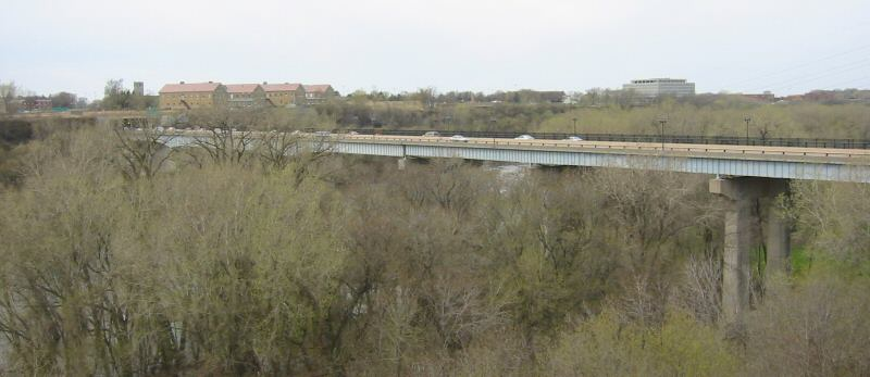 The Fort Road Bridge in St. Paul.